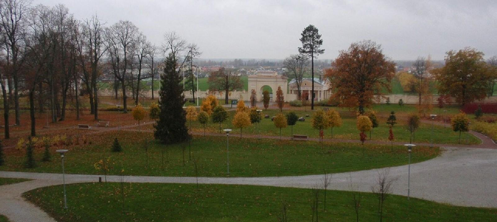 Picture of Raadi Park